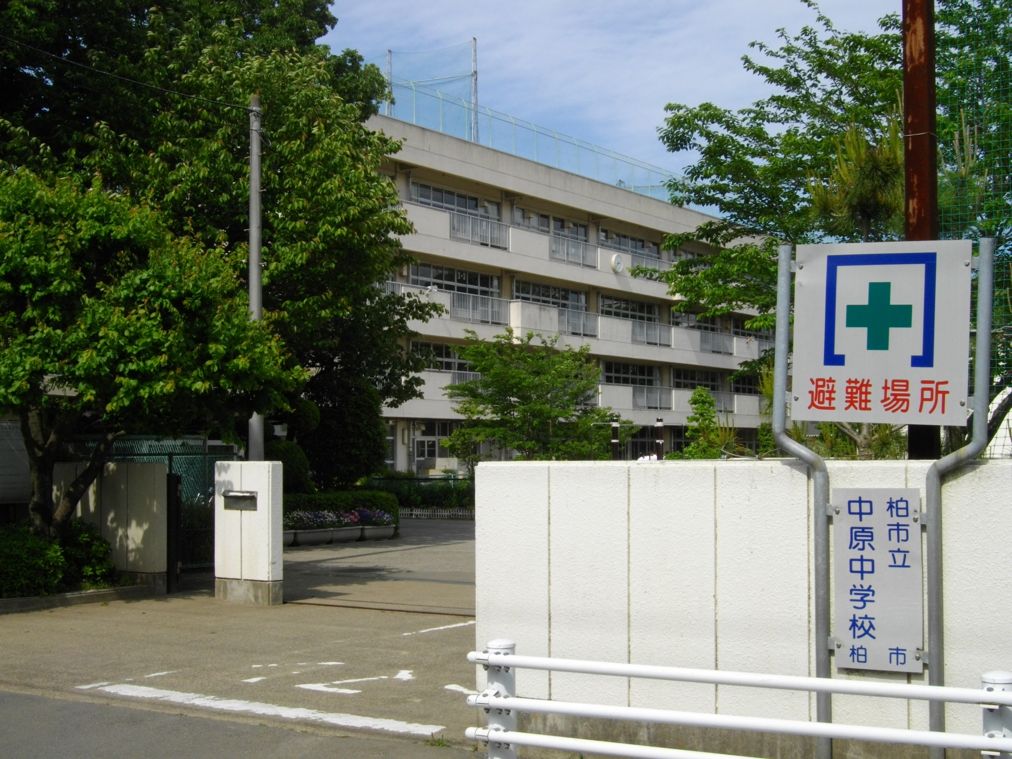 Kashiwa Municipal Nakahara Junior High School